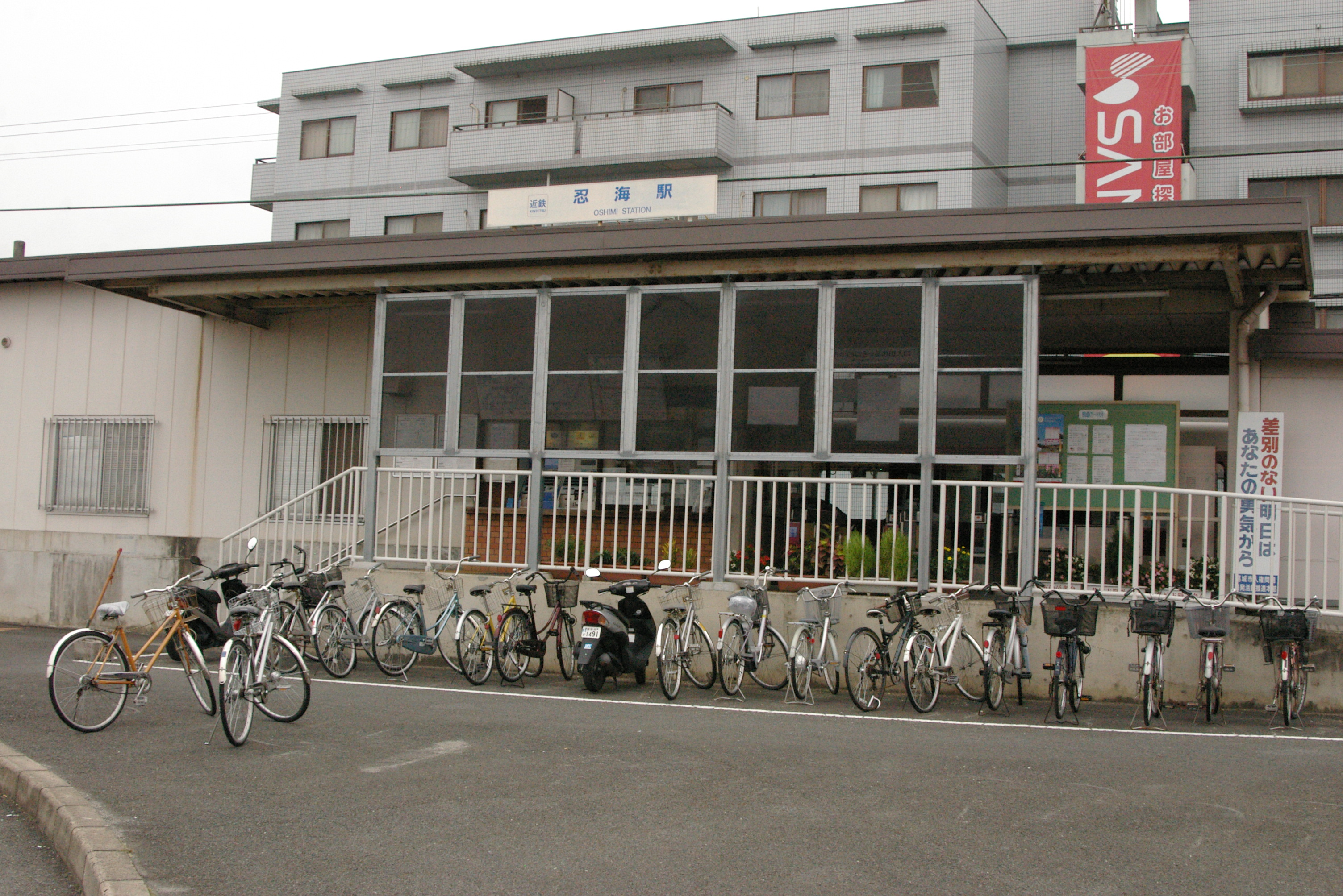 Oshimi Station entrance